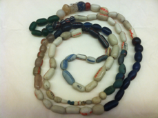 Photo taken by Kyra McCormick, Becca Leon, and LisaMarie Malischke